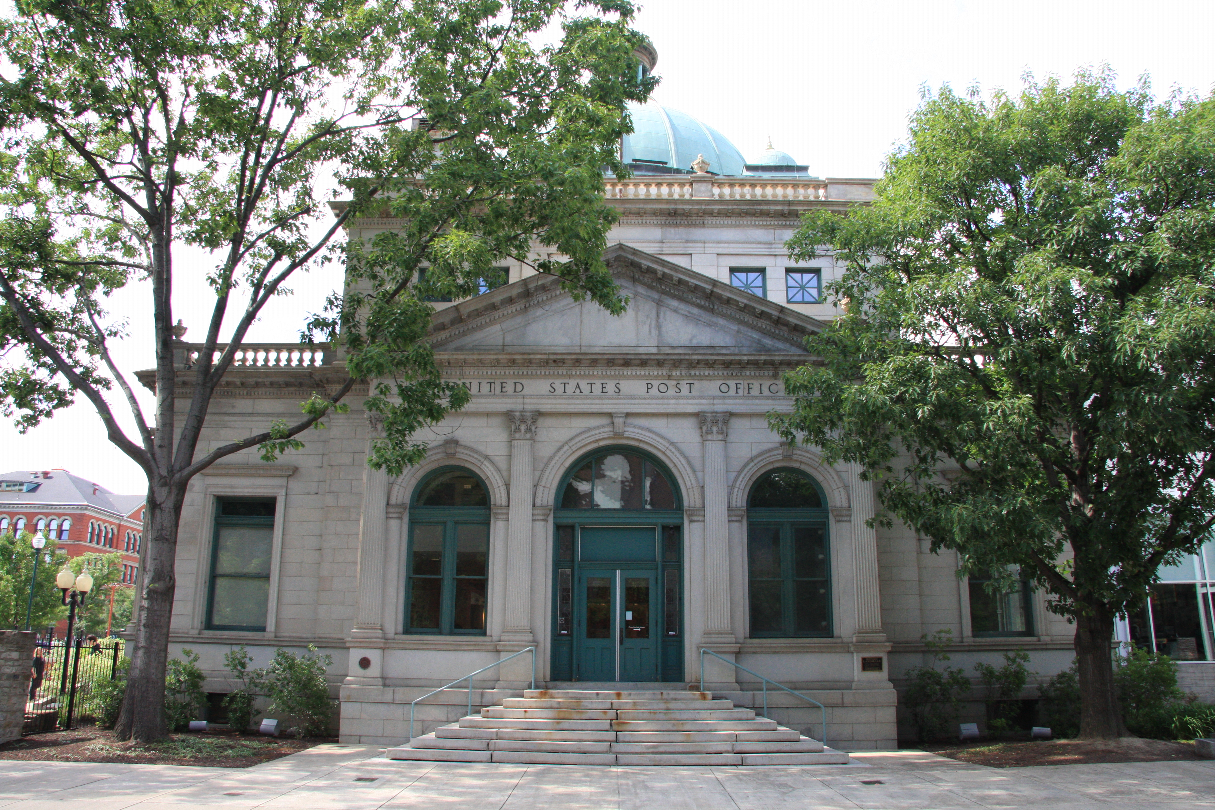 Allegheny post office front entrance. (Currently part of the children's museum.)